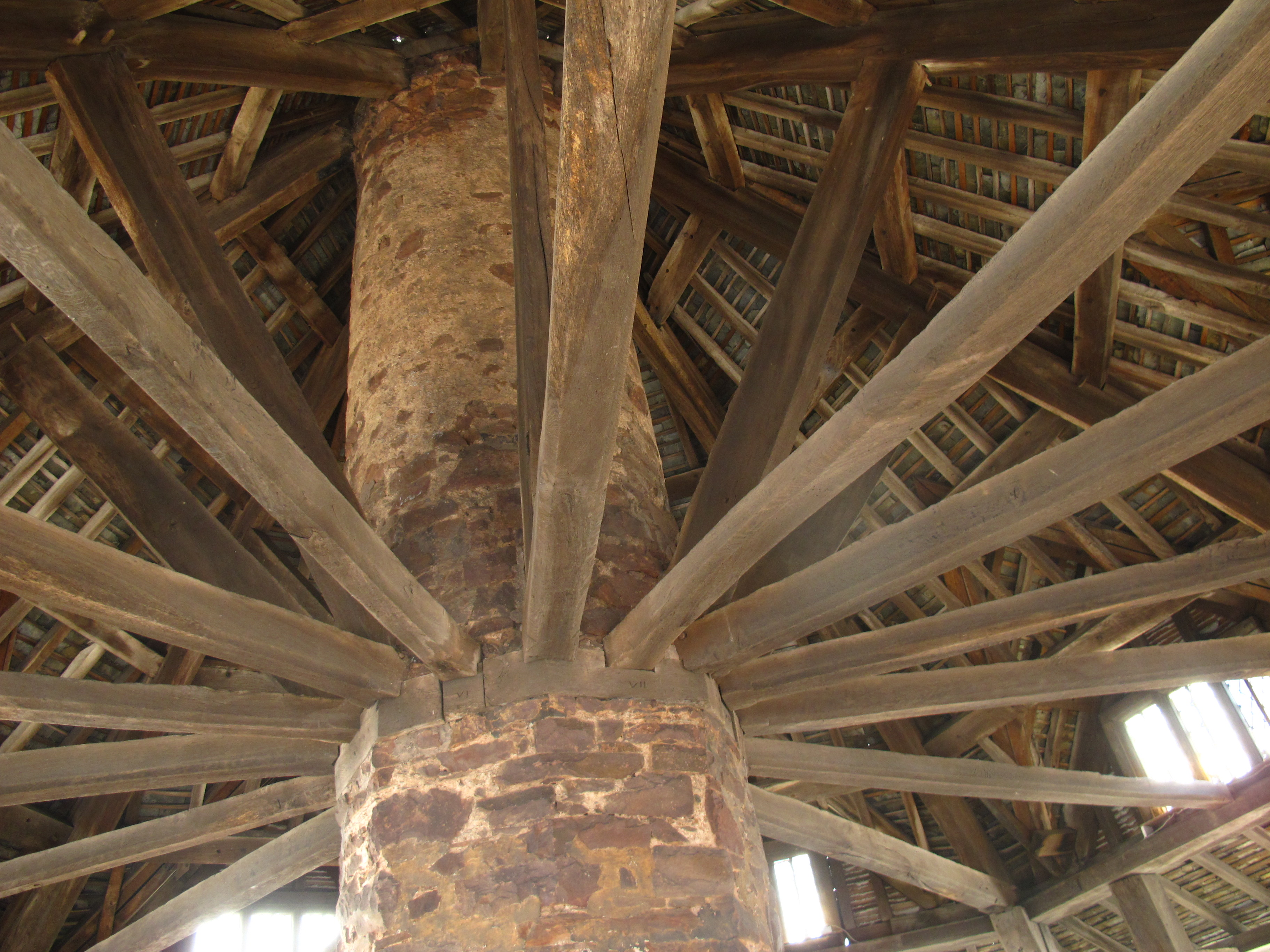 The roof of the Yarn Market in Dunster, showing its internal structure